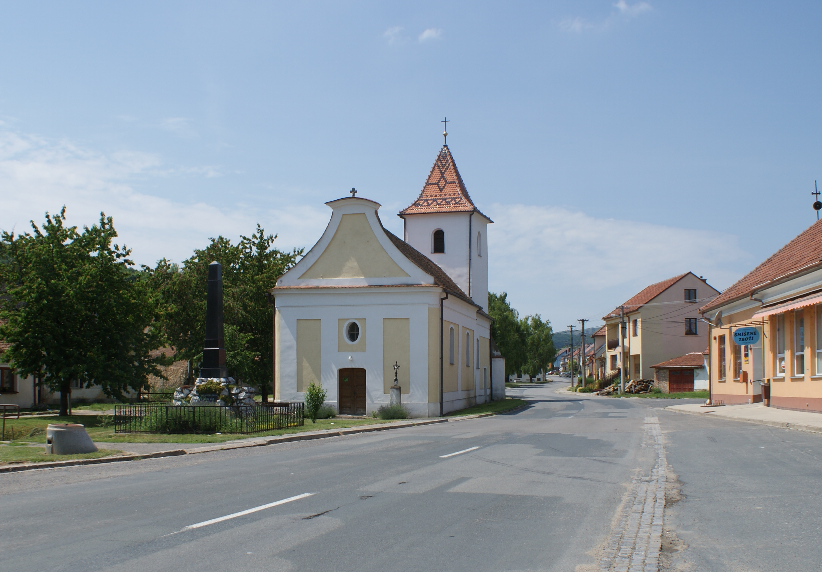 Milovice, a village in Břeclav District, Czech Republic, part of the village commons with the church.